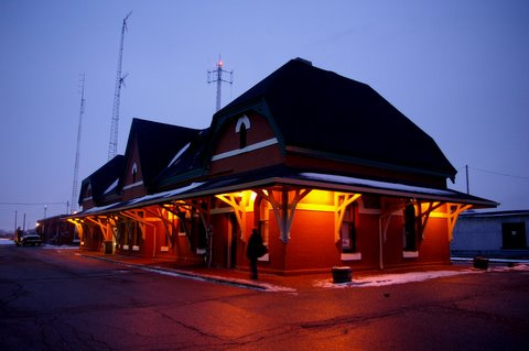 VIA Rail station in Chatham, Ontario